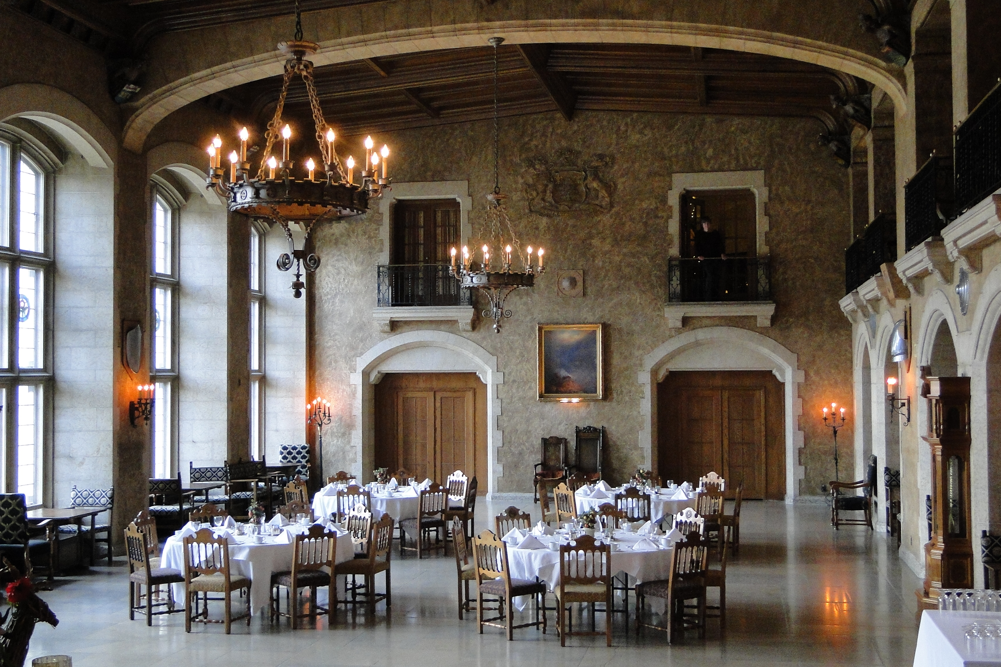 Banff Springs Hotel - Interior - Banff - Alberta - Canada - 01